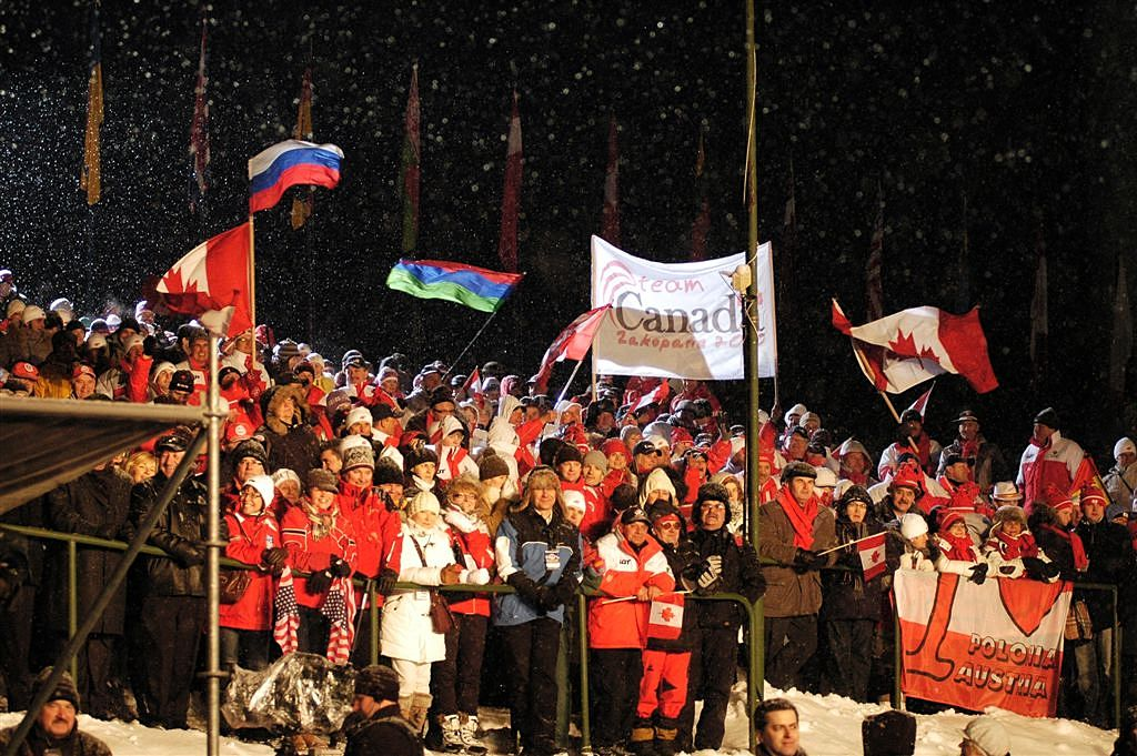 8th World Winter Polish Games in Zakopane